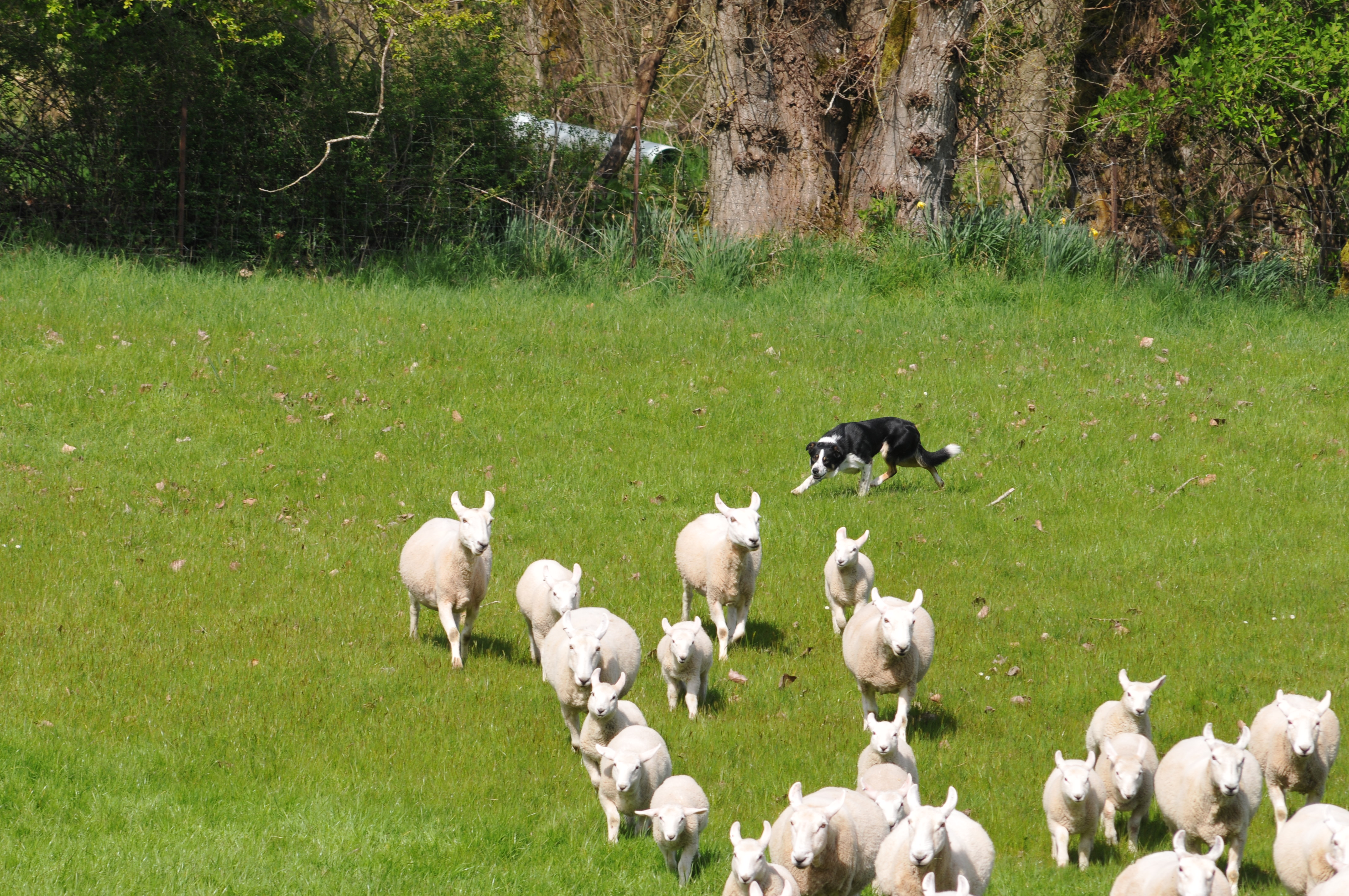 Working border collie herding a flock of ewes and their lambs. Free to use as stock images under following conditions: Don't steal, claim as yours, etc You link back to this page AND credit me by name (Arbutus Photography) Can be used for private, or commercial uses You do not create stock out of my stock You do not redistribute this image as is-please do something with it first